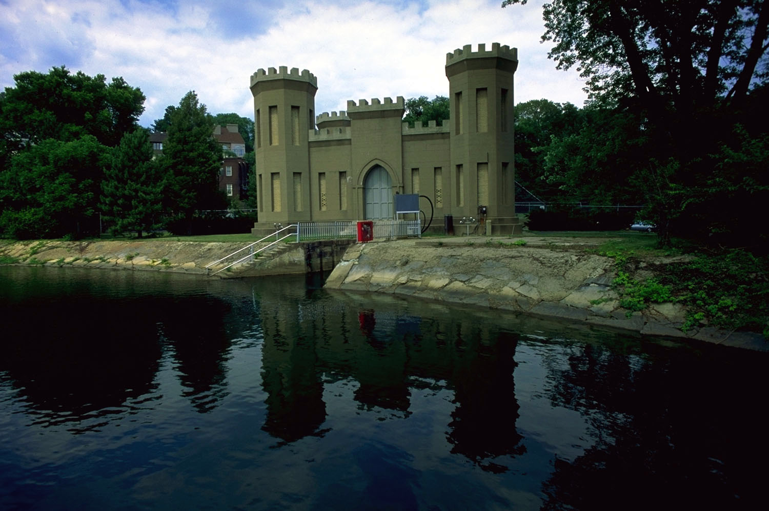 The Georgetown Reservoir castle, which is a pumping station built in the form of a castle, modeled after the U.S. Army Corps of Engineers castle insignia. The reservoir and castle are located in Georgetown, Washington, D.C. Color slightly enhanced by contributor.